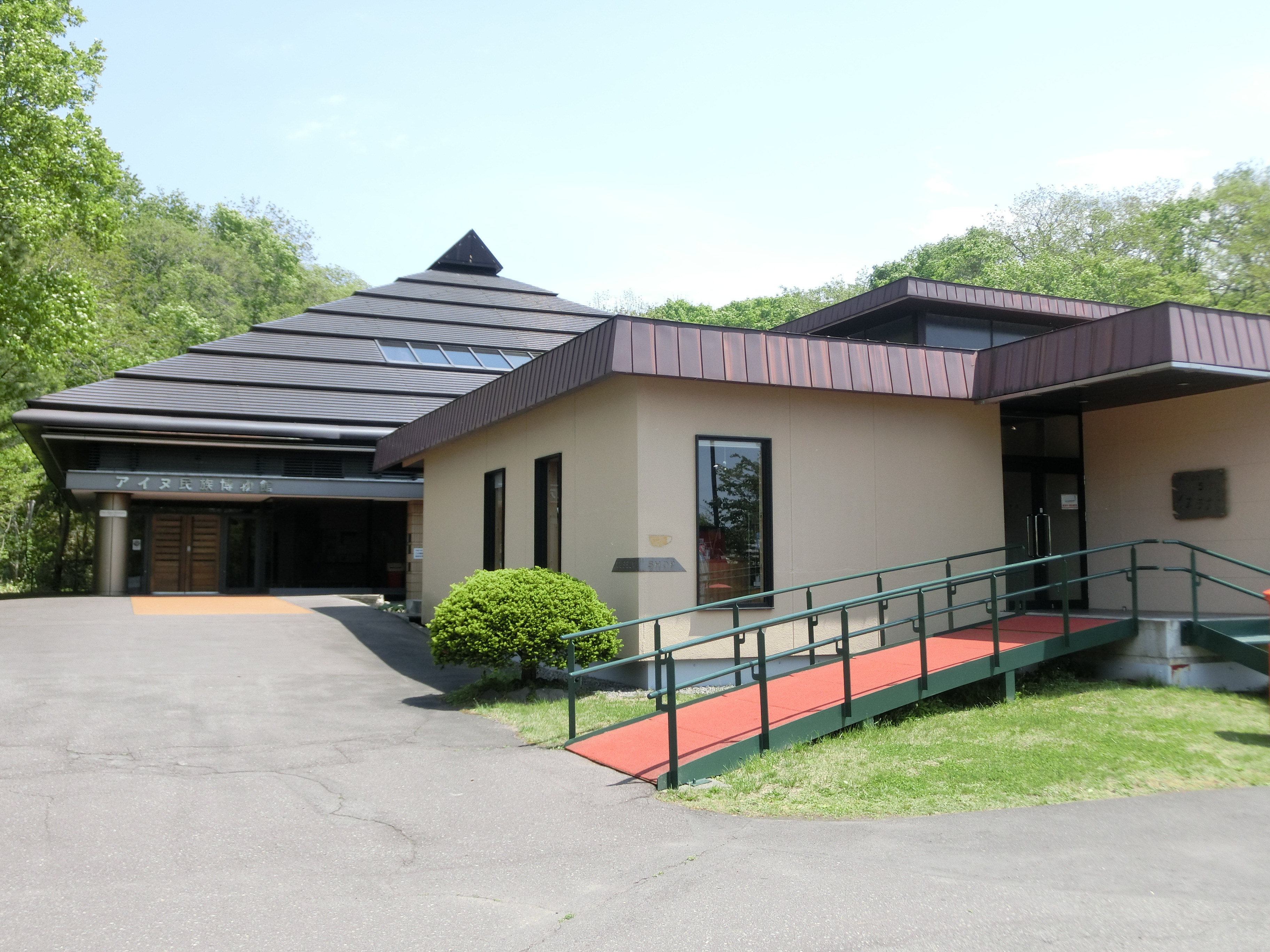 Ainu Museum building